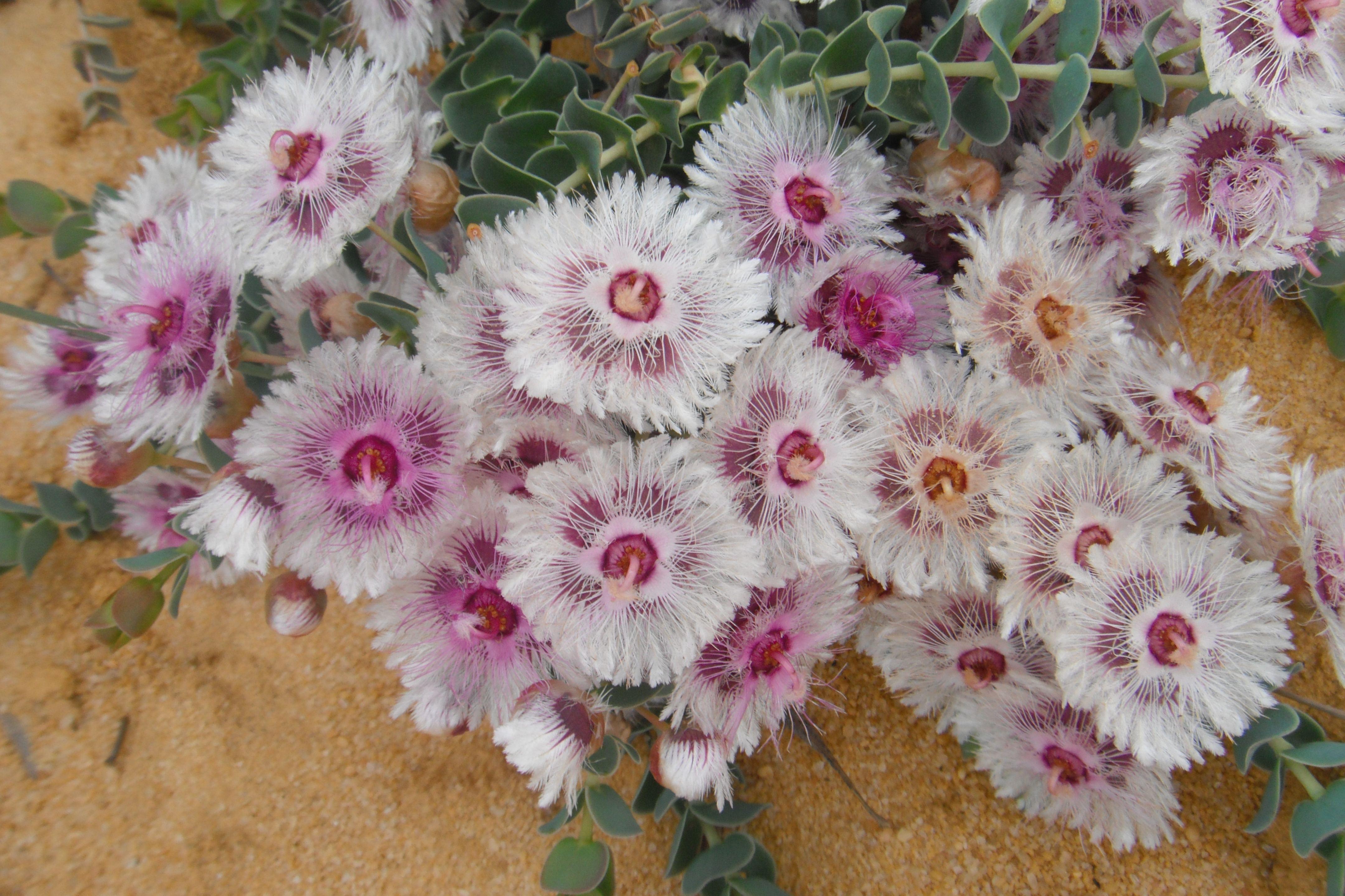 Wild flowers, Western Australia